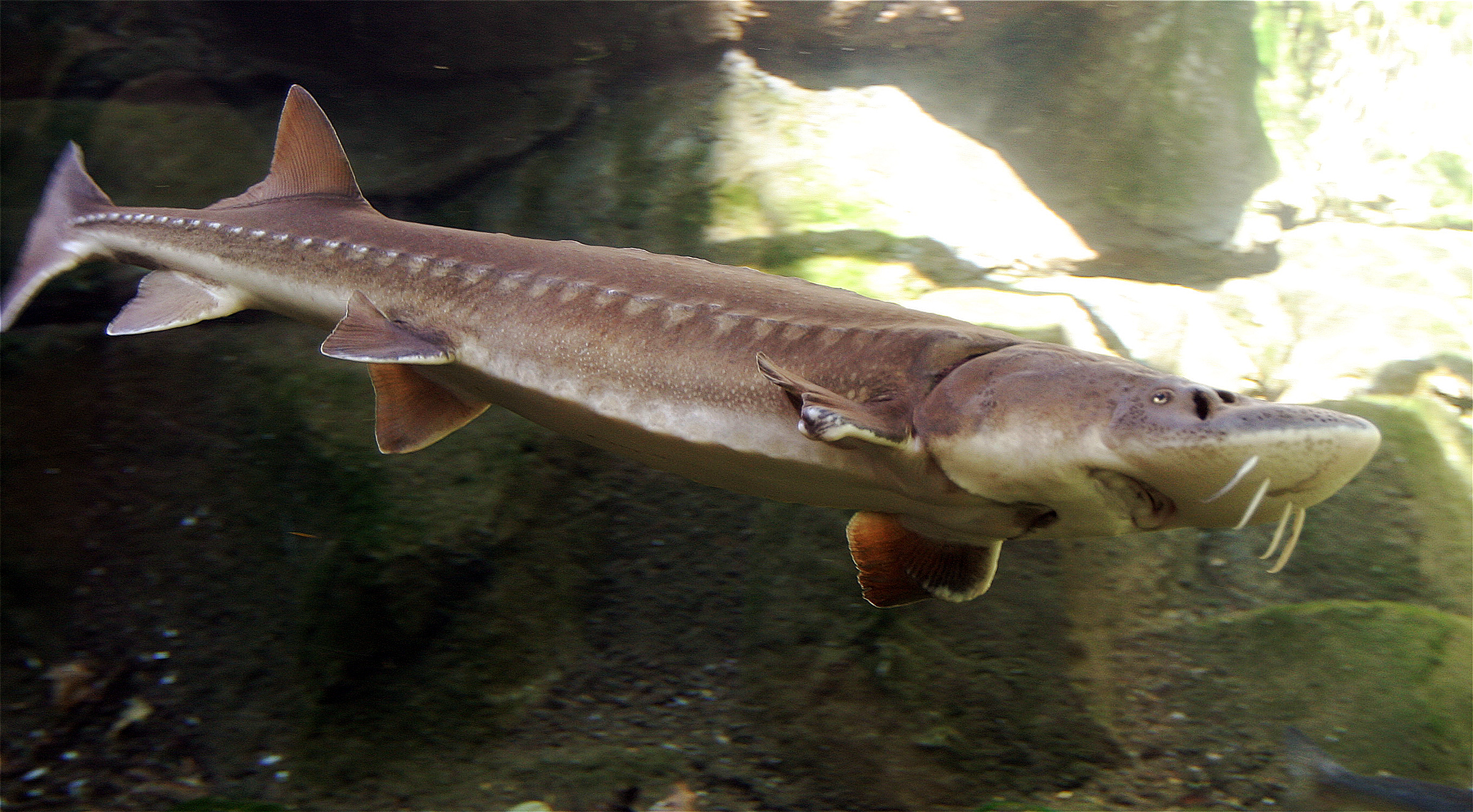 Sturgeon (Acipenser) at the Oregon Zoo